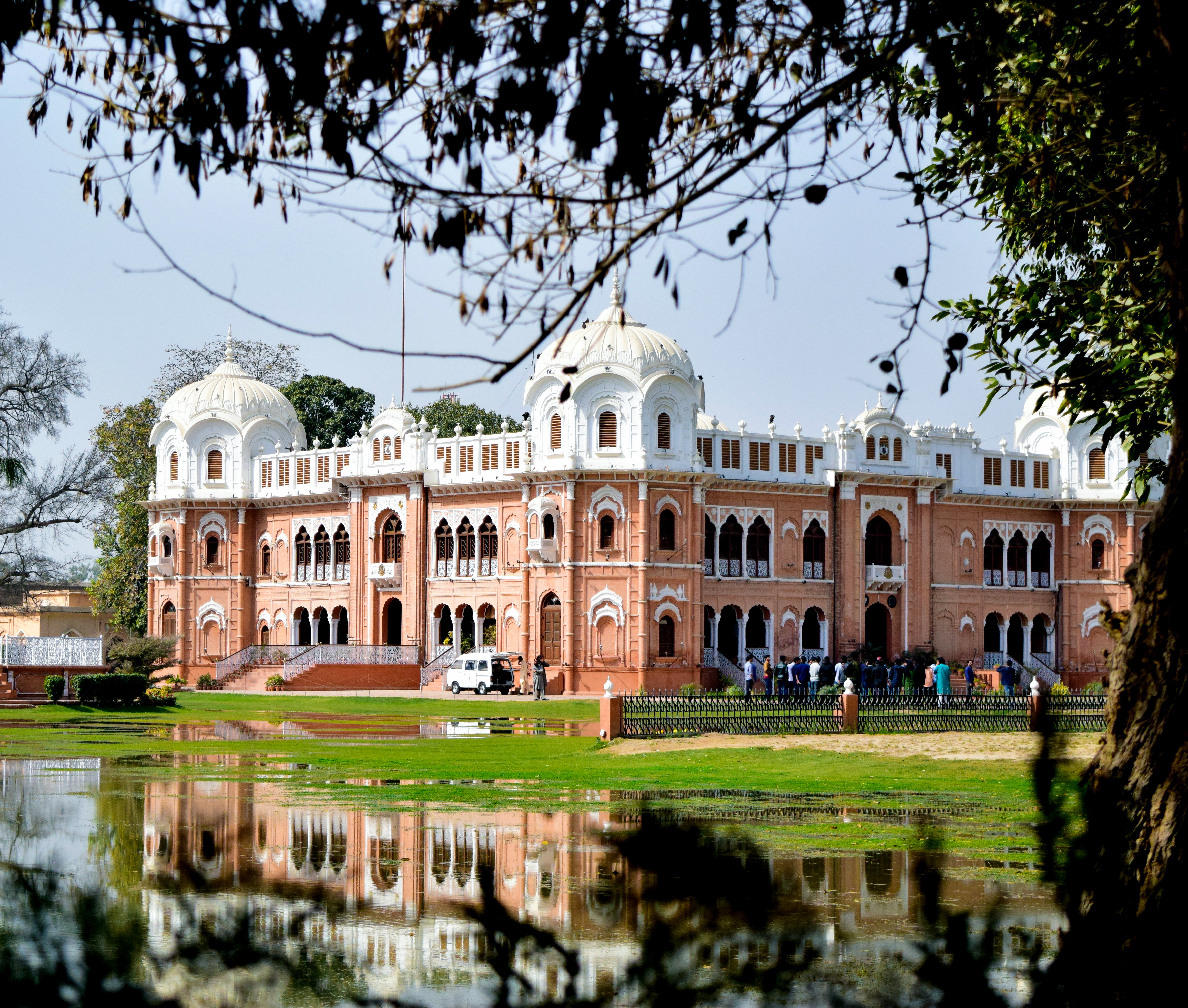 A daytime view, with a stunning reflection that leaves one in awe of the intricate architecture that went into the making of this Mahal. This is a photo of a monument in Pakistan identified as the PB-U-68